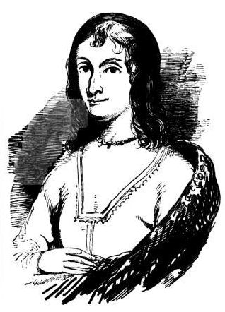 Anabella Drummond, (c. 1350 – 1401), queen consort of Robert III of Scotland.